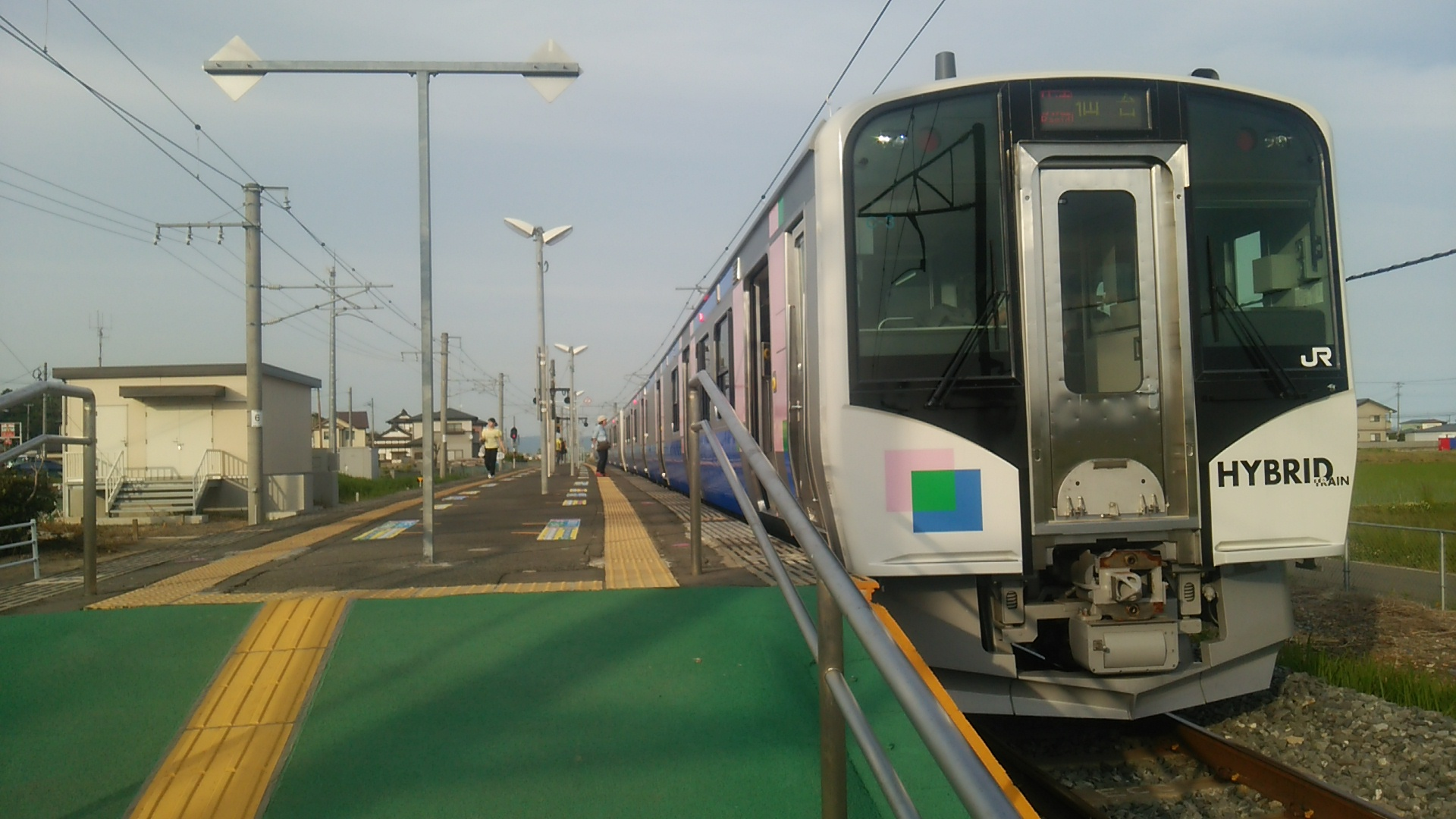 A JR East EB-E210 series hybrid DMU at Rikuzen-Ono Station on the first day of operations